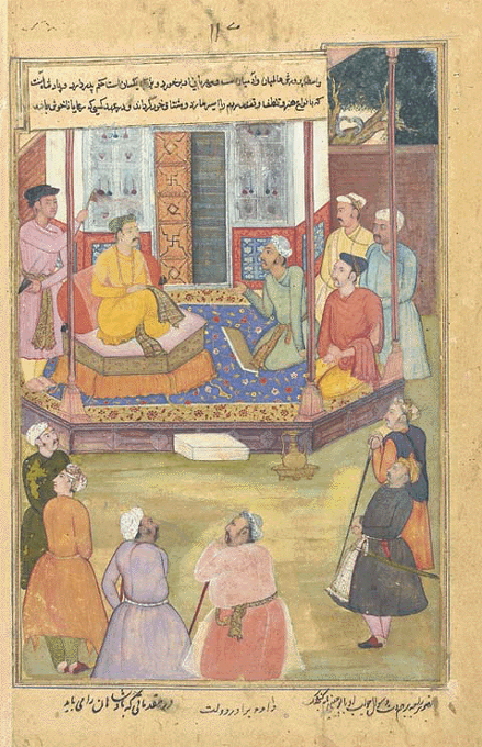 Yudhishtira and Bhismha on a Pavillion Razmnama